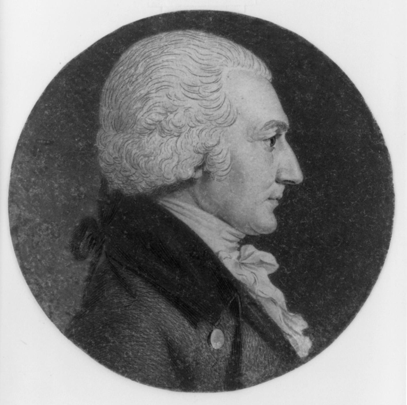 Nathan Read (July 2, 1759 - January 20, 1849), head-and-shoulders portrait, left profile